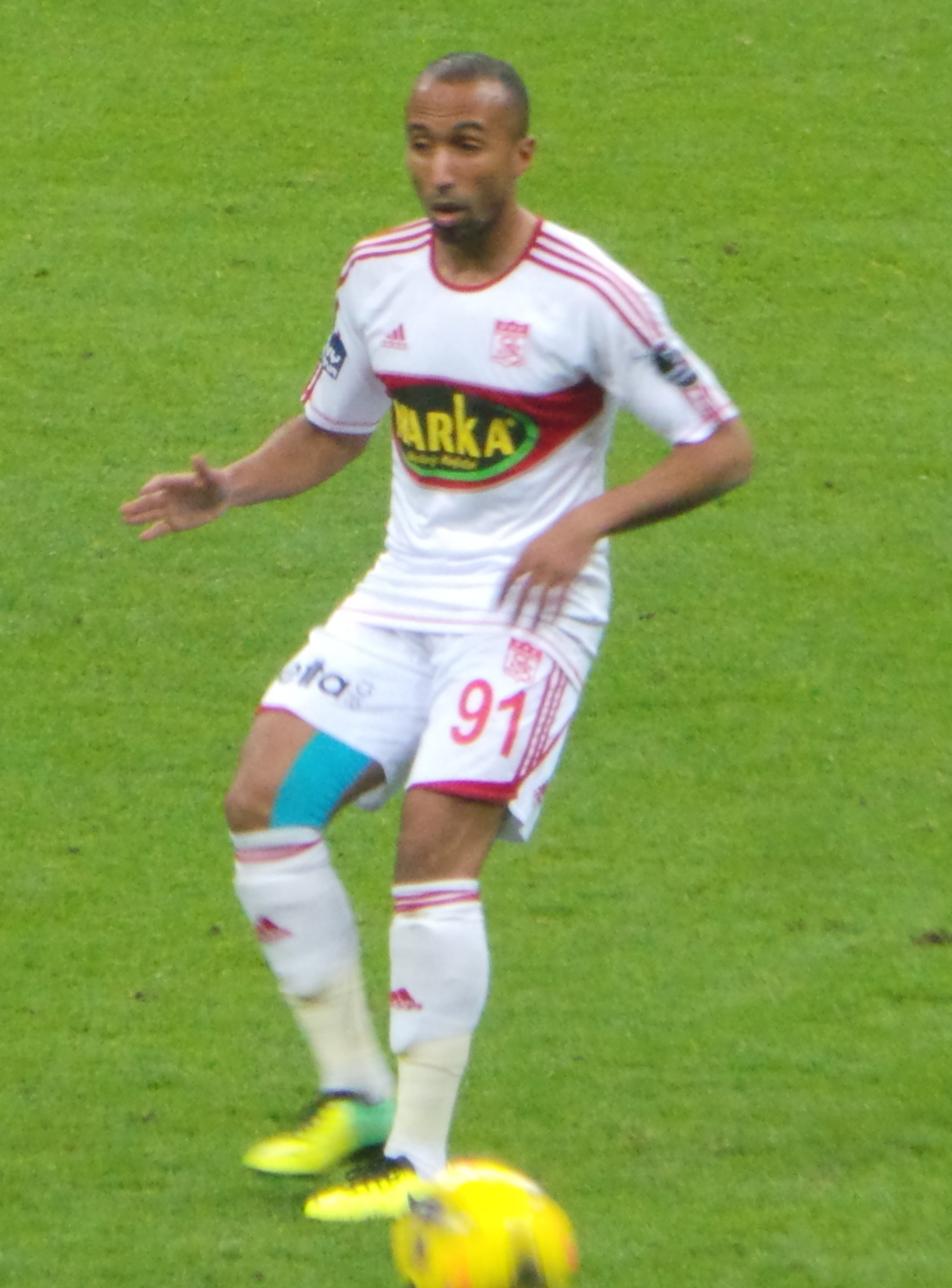 Taouil with Sivasspor